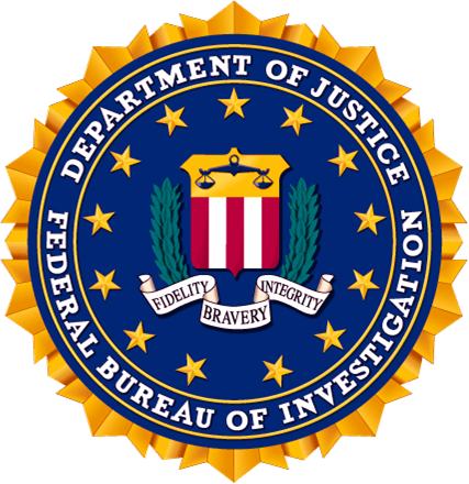 Federal Bureau of Investigation Seal.